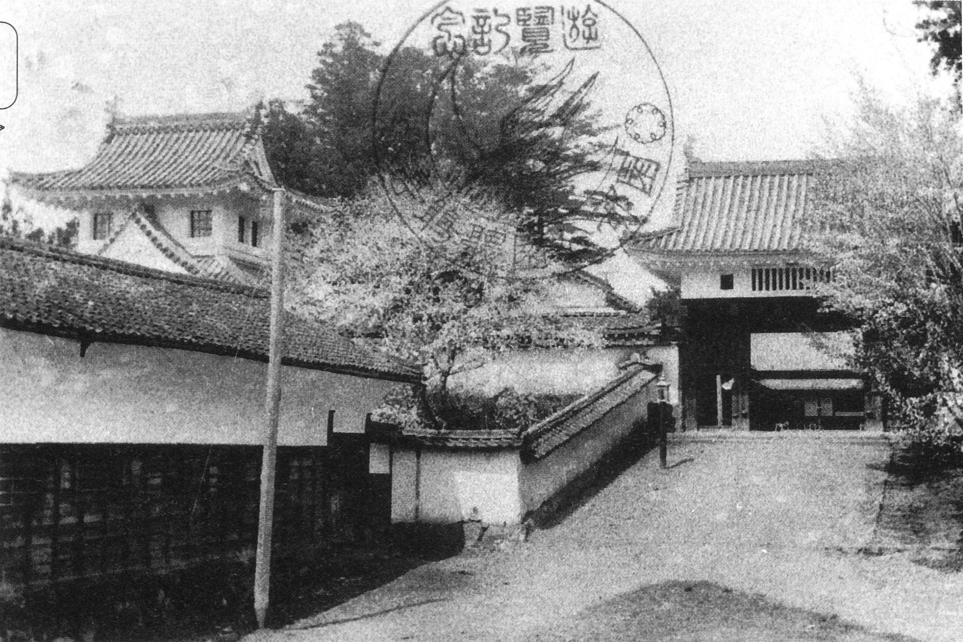 Japanese postcard view of the Otemon, a gate of Sonobe Castle in Sonobe, Kyoto Prefecture